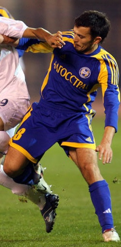 Alyaksandr Valadzko in action for FC BATE